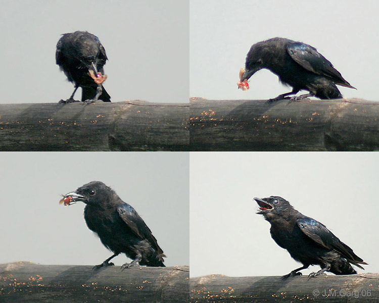 Black Drongo Dicrurus macrocercus in Kolkata, West Bengal, India.